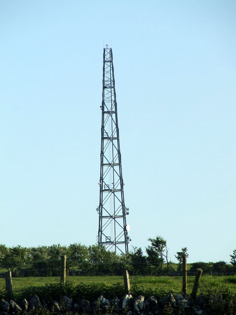 Radio Mast at Penmynydd, Anglesey